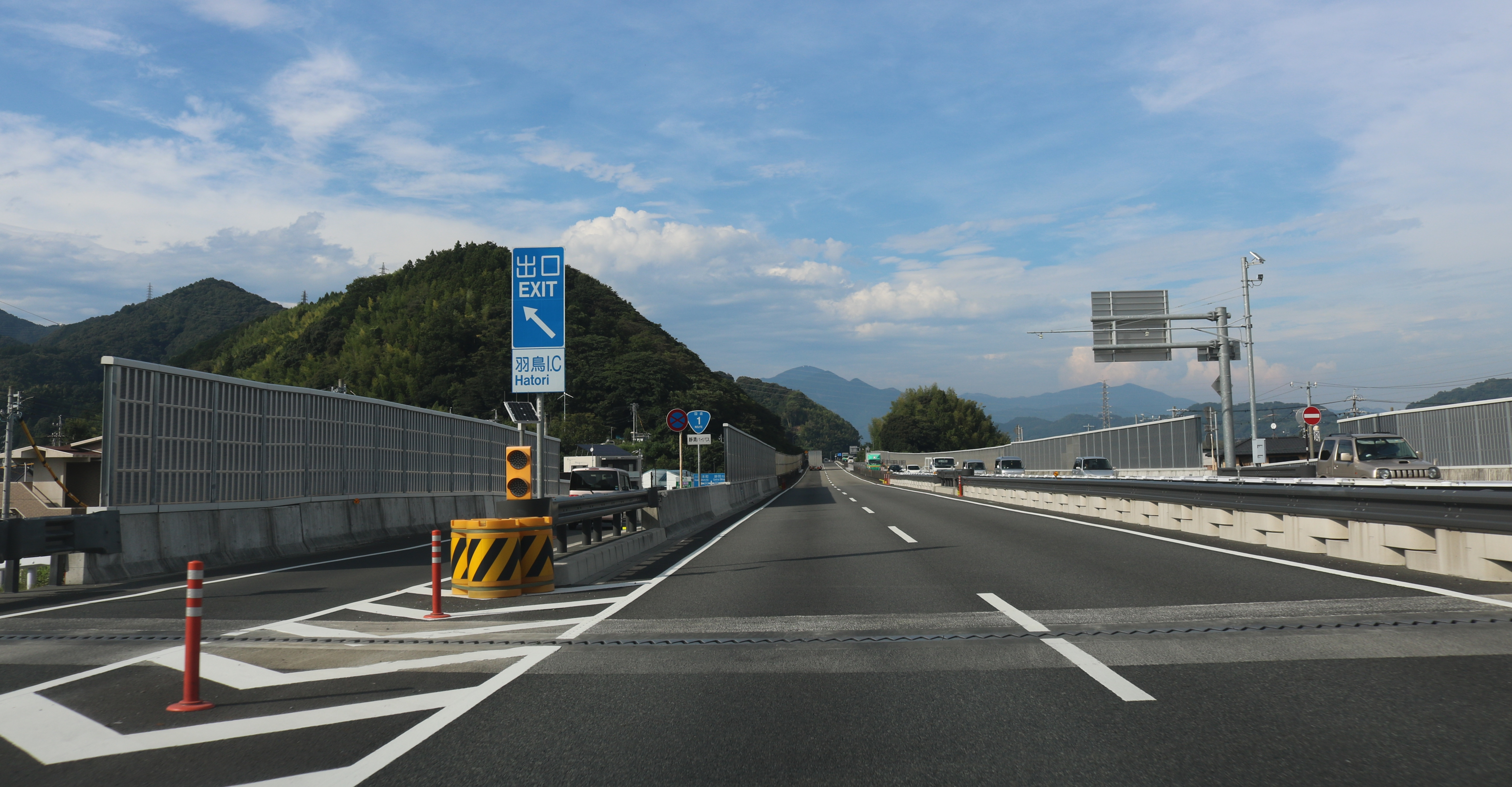 Hatori Interchange (Route 1) of Seishin Bypass (Route 1) in Hatori, Aoi-ku, Shizuoka City, Shizuoka Prefecture, Japan.